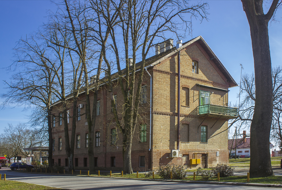 Belišće 3